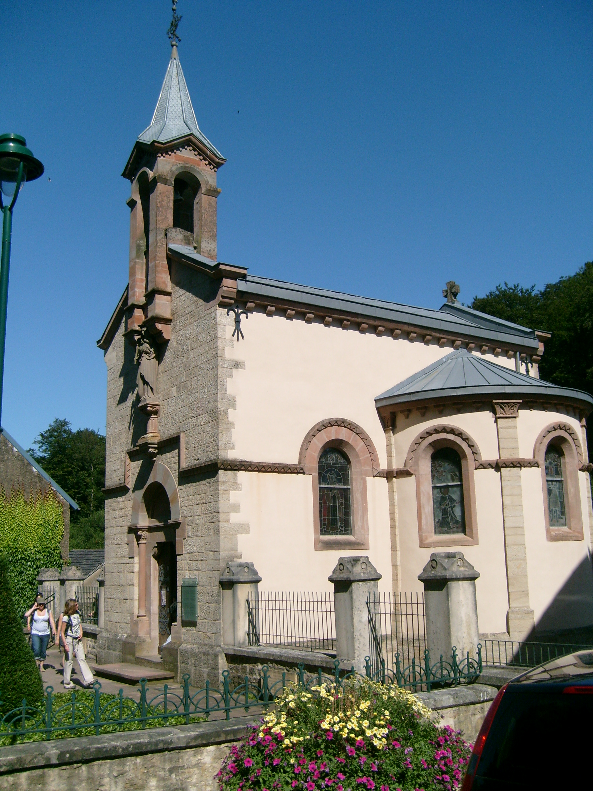 The chapell of Mary in Clairefontaine, Belgium, close to the Luxembourg border.